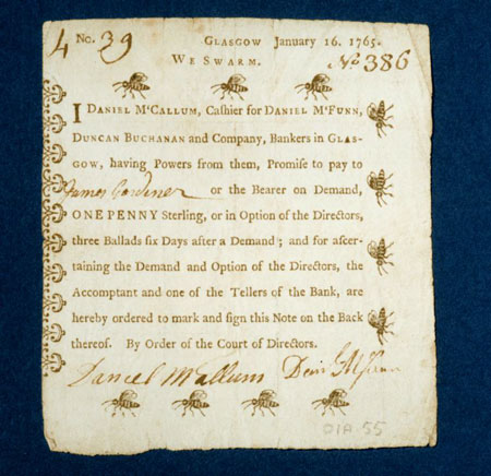 Banknote issued by a private company. The value of this note is maintained by a payment promise. See free banking. This note contains an option clause, the directors can decide not to redeem the note by demand, but six month later paying interest in this period.